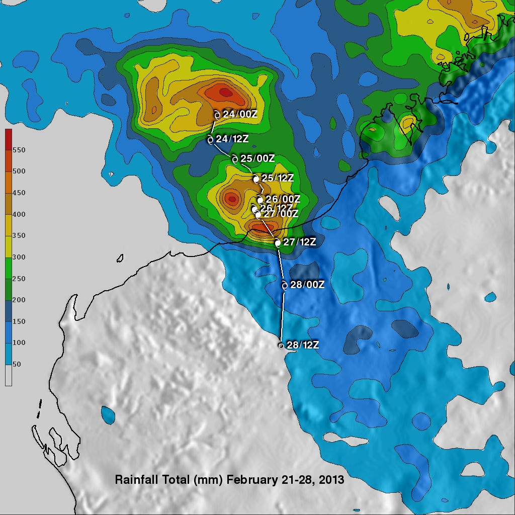 This rainfall analysis from NASA's TRMM satellite data shows Cyclone Rusty's heaviest rainfall of about 23.6 inches fell in the Indian Ocean. Rainfall totals of over 19.7 inches occurred along the coastal area where Rusty made landfall. Rusty spread over 2 inches of rainfall far inland. Rusty's approximate 0000Z and 1200Z positions are shown overlaid in white.